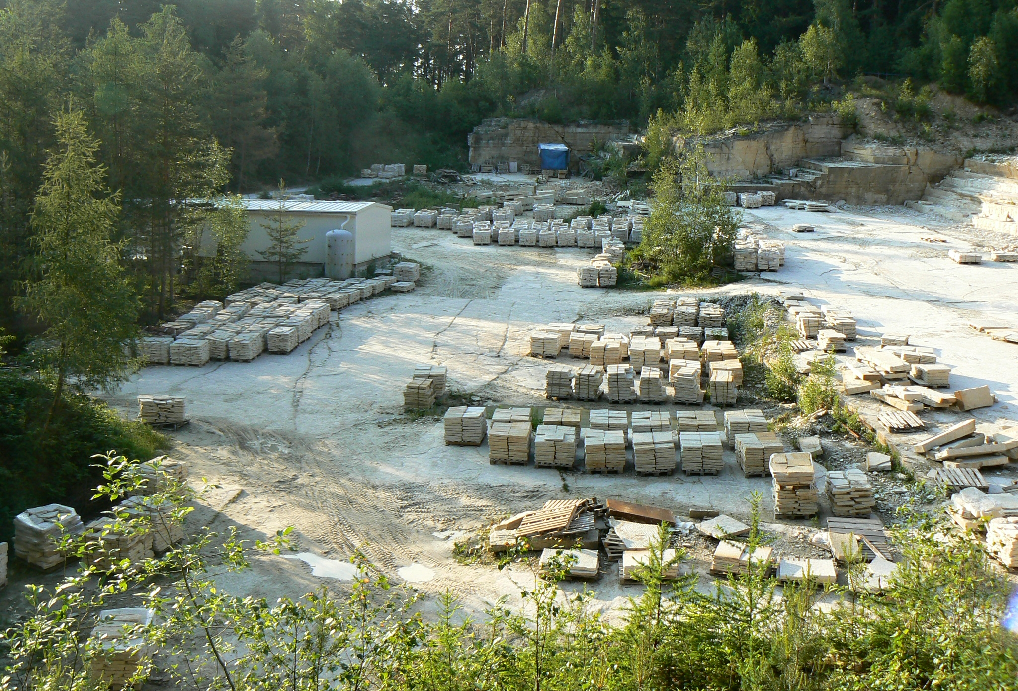 Quarry "U Devíti Křížů" near Červený Kostelec in Náchod District (Czech Republic). Triassic, Bohdašín Formation